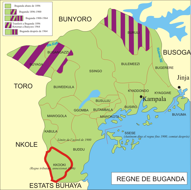 Buganda, map 1896-1964